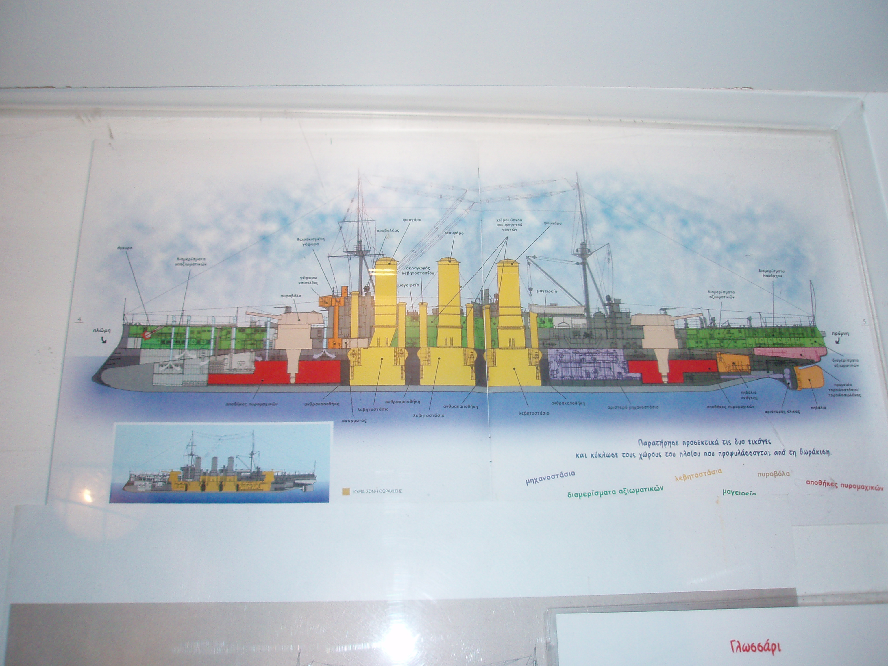 Section diagram for the armoured cruiser Georgios Averof at the Maritime Tradition Park in Faliron, Greece. Engine rooms are marked with purple, officers' quarters in dark green, mess rooms and kitchens in light green, boiler rooms in yellow, armament in beige, and ammo depots in red.